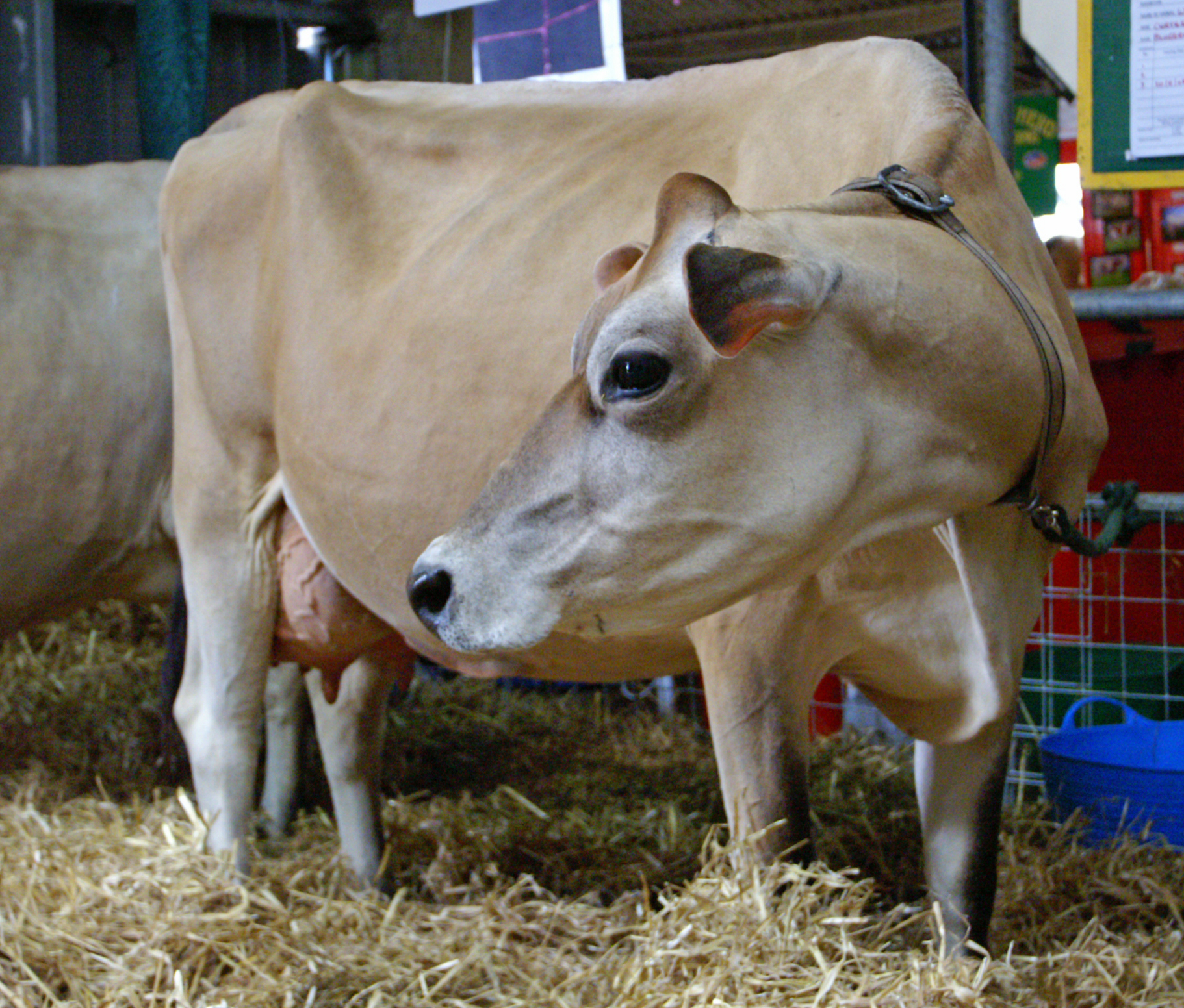 The Last Royal Show